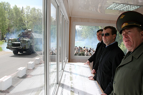 TEIKOVO, IVANOVO REGION. At the 54th Division of the Strategic Missile Forces. With Nikolai Solovtsov, the commander of the Strategic Missile Forces, and Minister of Defense Anatoly Serdyukov.